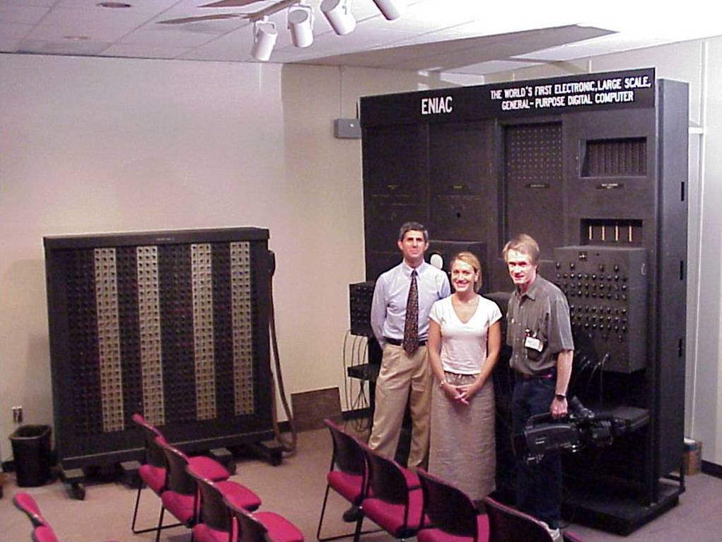 Dr. Jon Nese with the famous supercomputer ENIAC